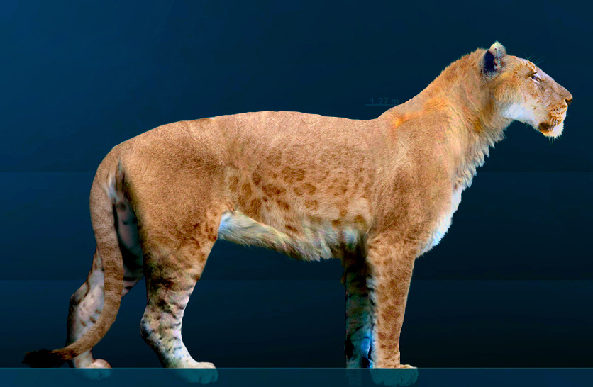 Graphical reconstruction of Panthera leo atrox the "American lion" based on bony structure and paleontological texts